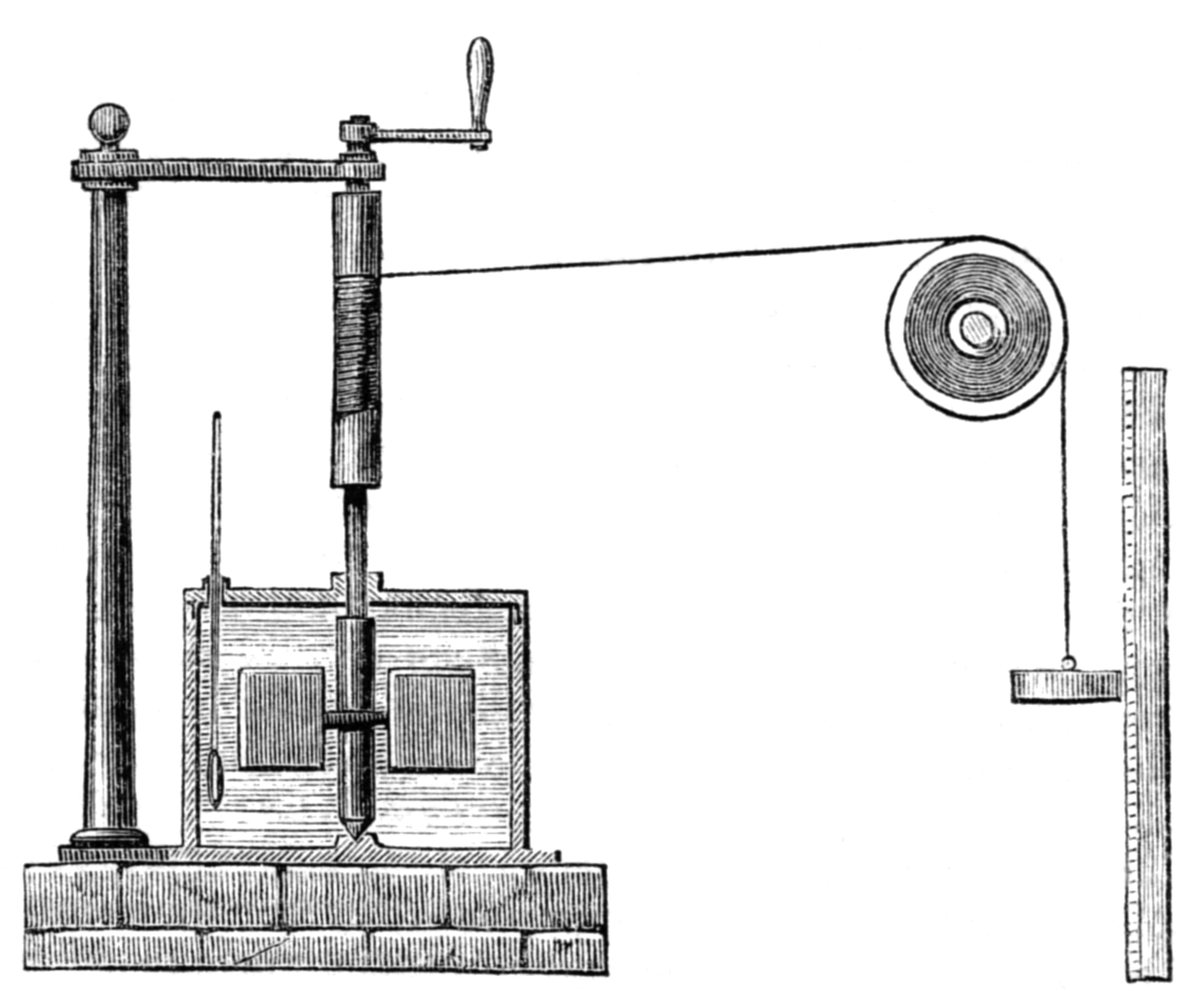 Engraving of James Joule's apparatus for measuring the mechanical equivalent of heat, in which altitude potential energy from the weight on the right is converted into heat at the left, through stirring of water.